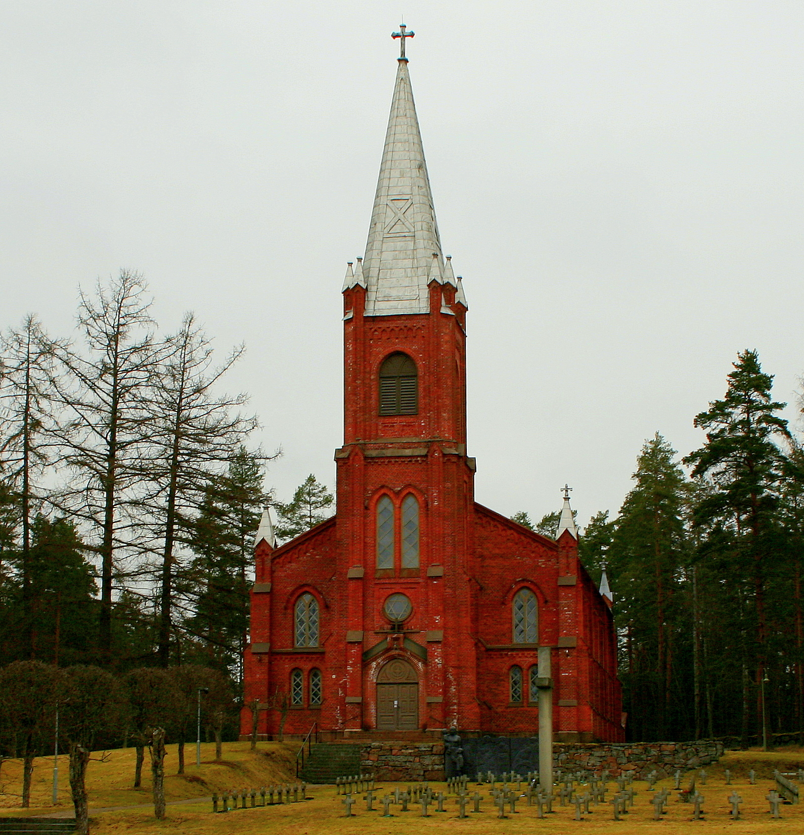 The Sippola Church in Anjalankoski, Finland.